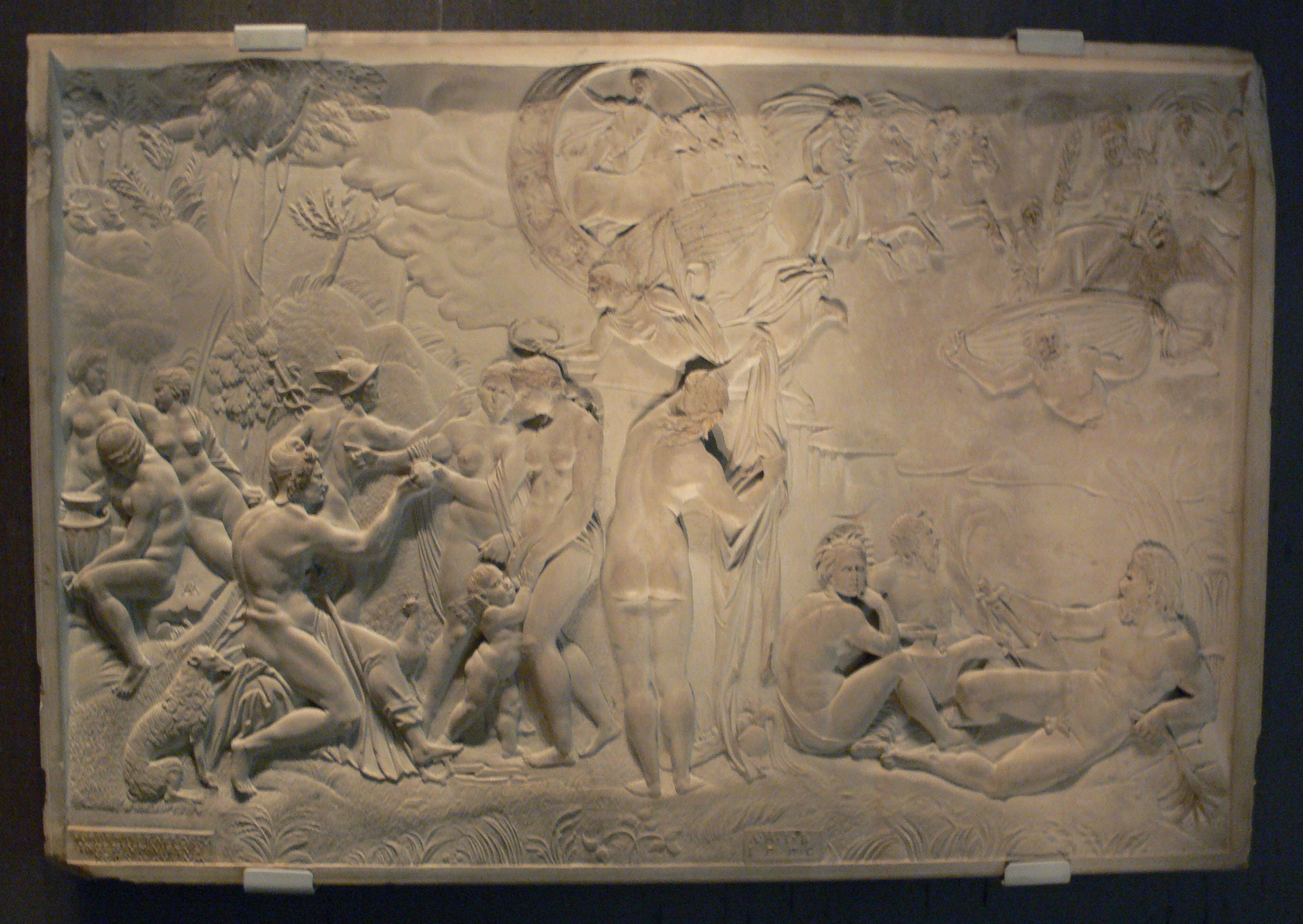 Hans Ässlinger, Judgement of Paris, Munich 1550; Solnhofen limestone and gilding. After a print by Marc Anton Raimondi after Raffael. Bayerisches Nationalmuseum München, R 187, Kunstkammer der Wittelsbacher